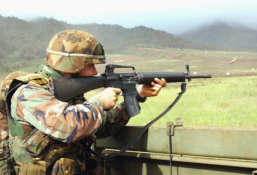 Specialist Kenneth Bull fires his M16 rifle from the back of a truck during recent convoy live-fire training at Schofield Barracks, Hawaii. Bull is assigned to the 25th Infantry Division's Company C, 325th Forward Support Battalion. The division is preparing for deployments to Iraq and Afghanistan.